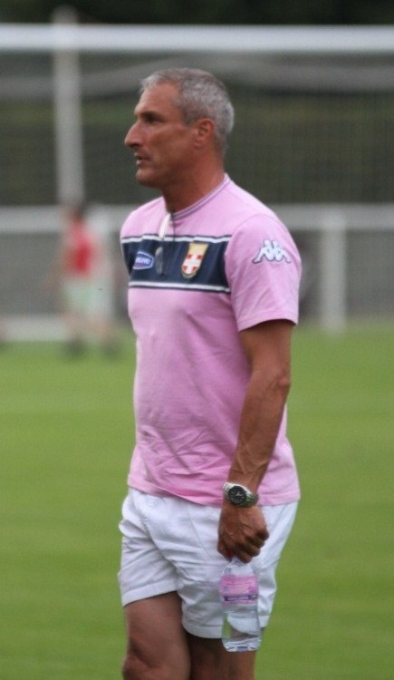 Bernard Casoni, french association football player and coach. Player of french national association football team and Olympique de Marseille. Coach of Evian Thonon Gaillard on this picture.